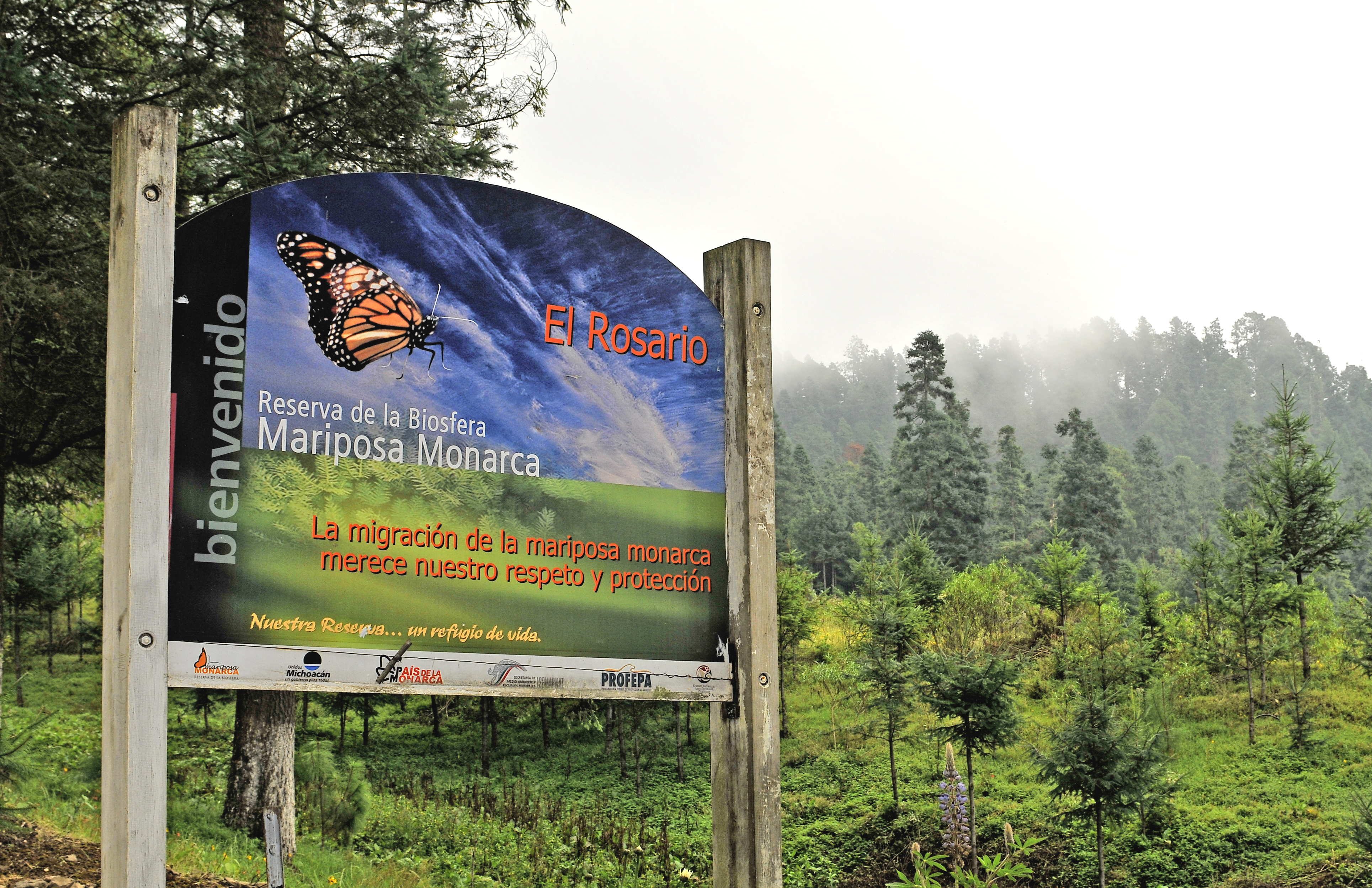 Sign at the entrance of the Monarch Butterfly Biosphere Reserve. Ocampo, Michoacán, Mexico